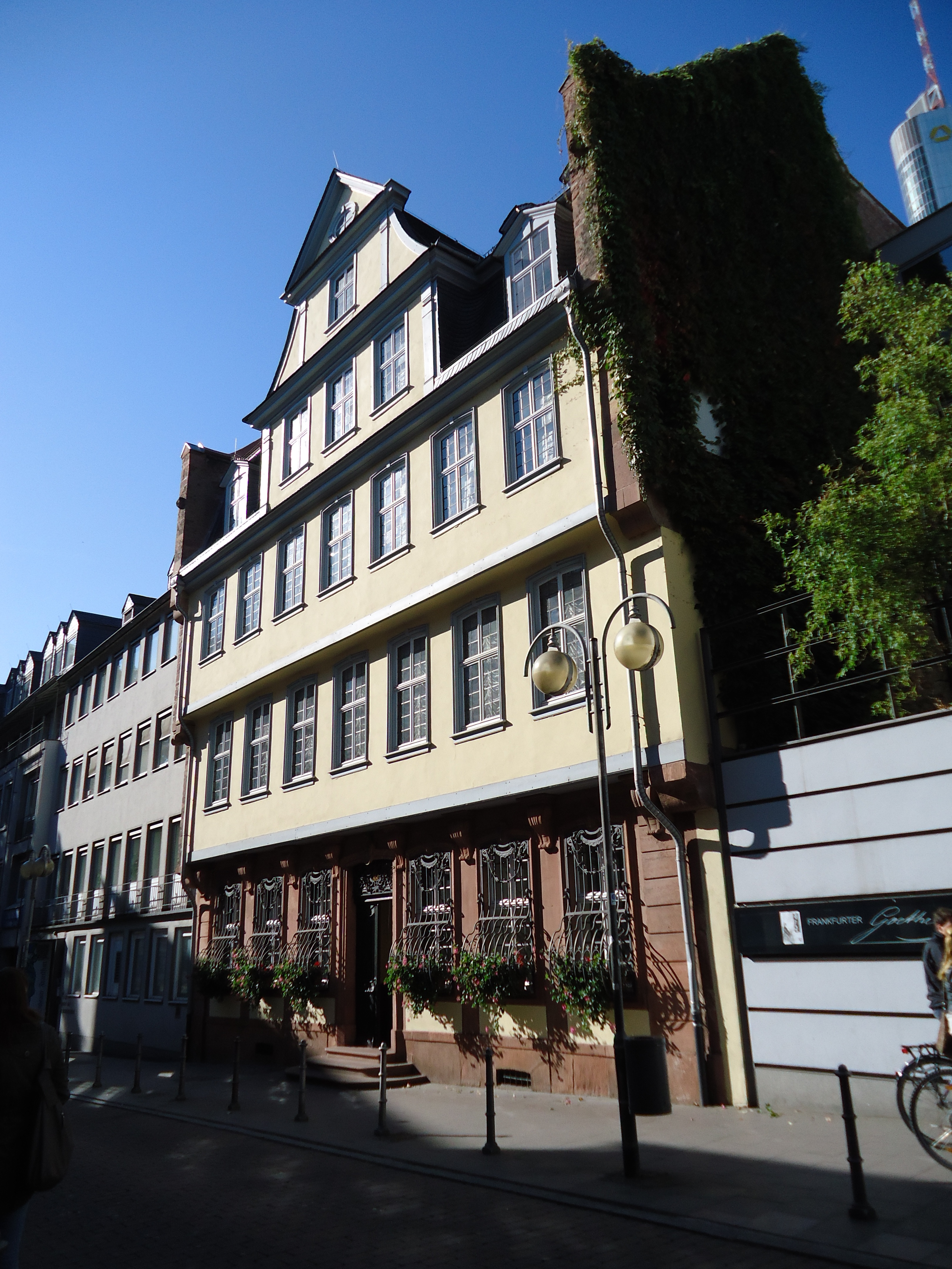 Goethe House in Frankfurt am Main, Germany.